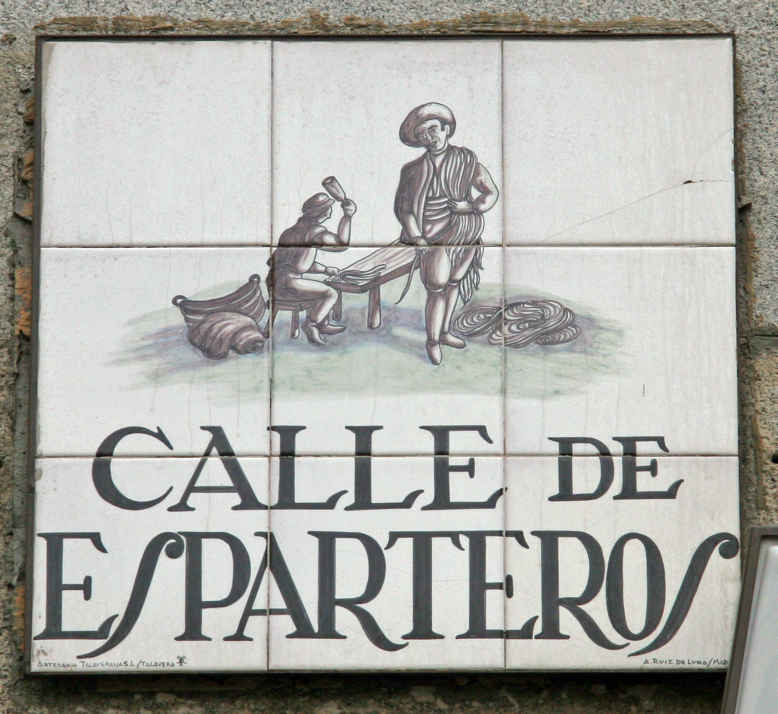 Sign of Calle de Esparteros (street, Centro district) in Madrid (Spain).